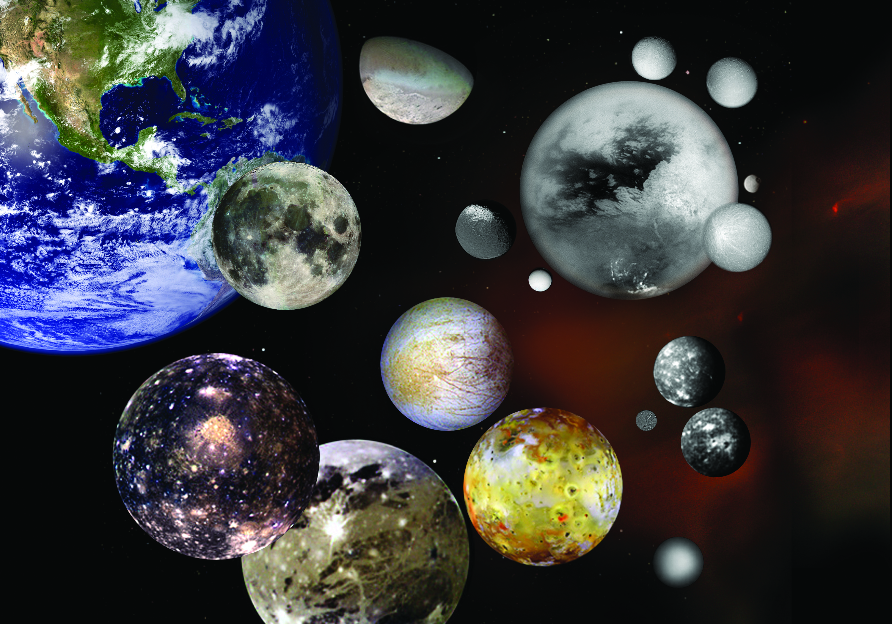 Montage in scale of the majors natural satellites of our Solar System relative to Earth. Pictured are Earth's Moon; Jupiter's Callisto, Ganymede, Io and Europa; Saturn's Iapetus, Enceladus, Titan, Rhea, Mimas, Dione and Tethys; Neptune's Triton; Uranus' Miranda, Titania and Oberon and Pluto's Charon.